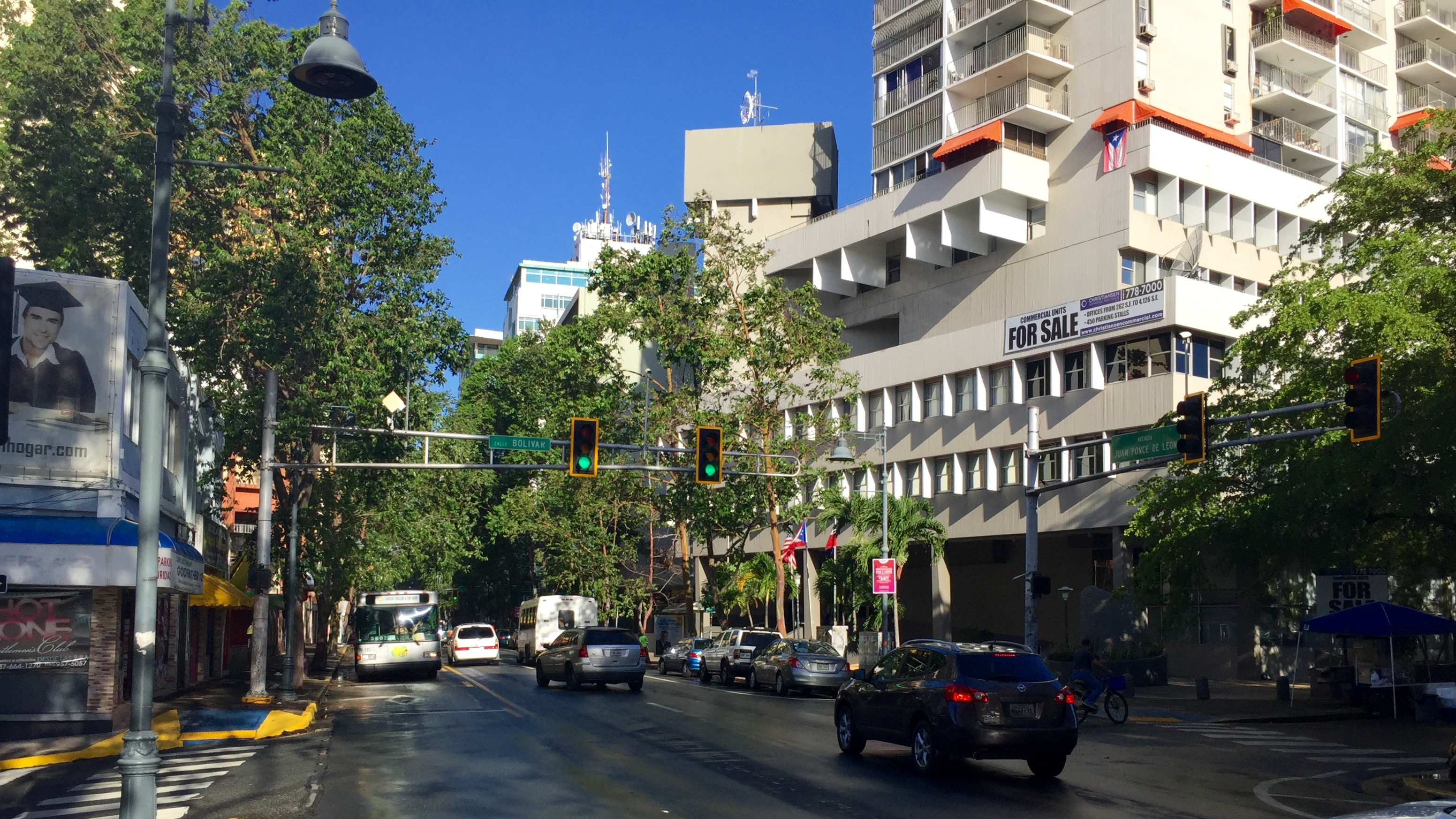 Cobian's Plaza on the right located in San Mateo, Santurce